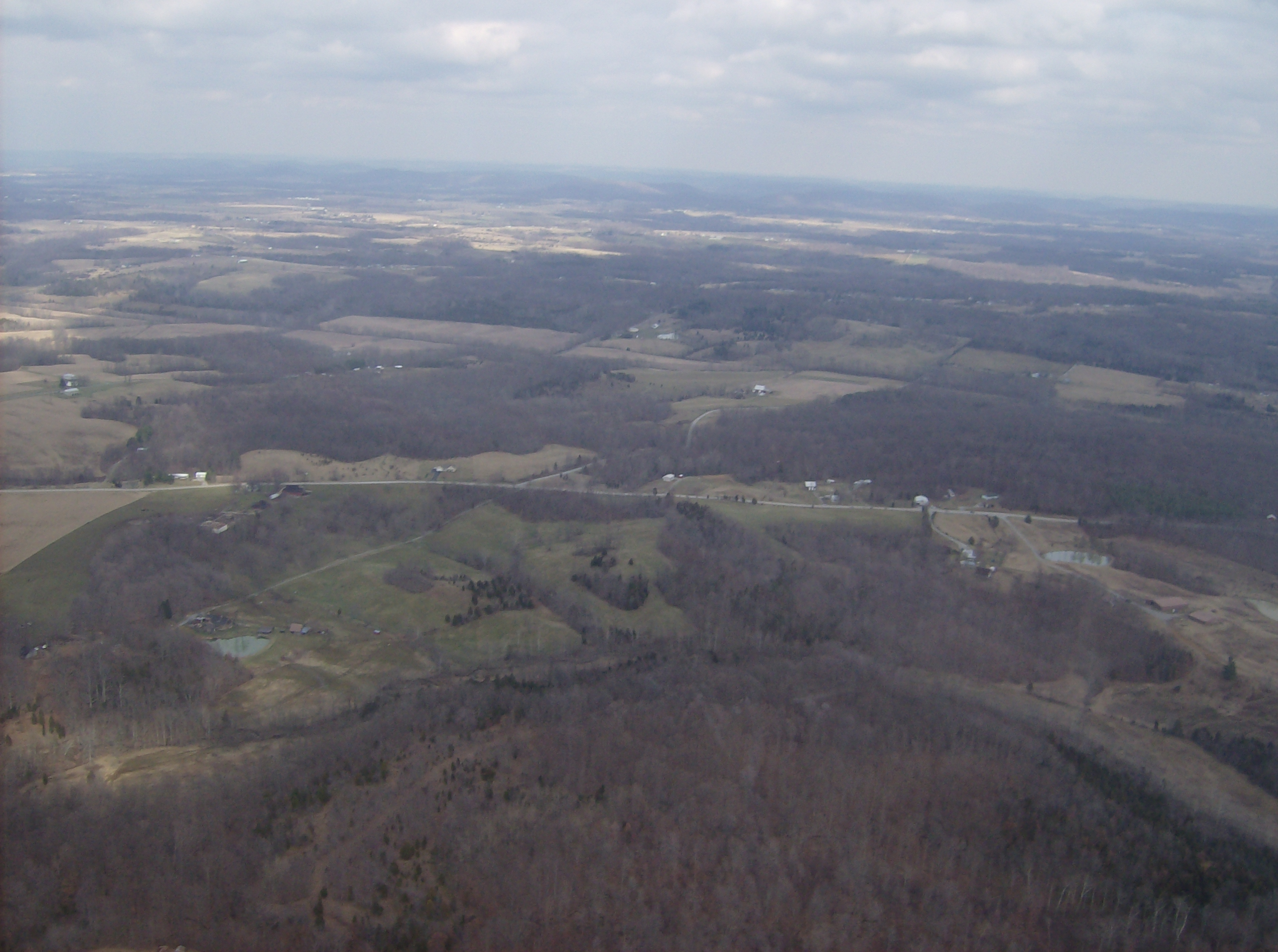 Woods and fields in southeastern Washington Township, Highland County, Ohio, United States, between Belfast and Berrysville. Intersection at center of picture is State Route 73 and Reno Lane. Picture taken from a Diamond Eclipse light airplane at an altitude of 2,400 feet MSL and a bearing of approximately 75º.